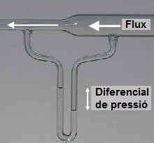 Photo of a Venturi tube with labels